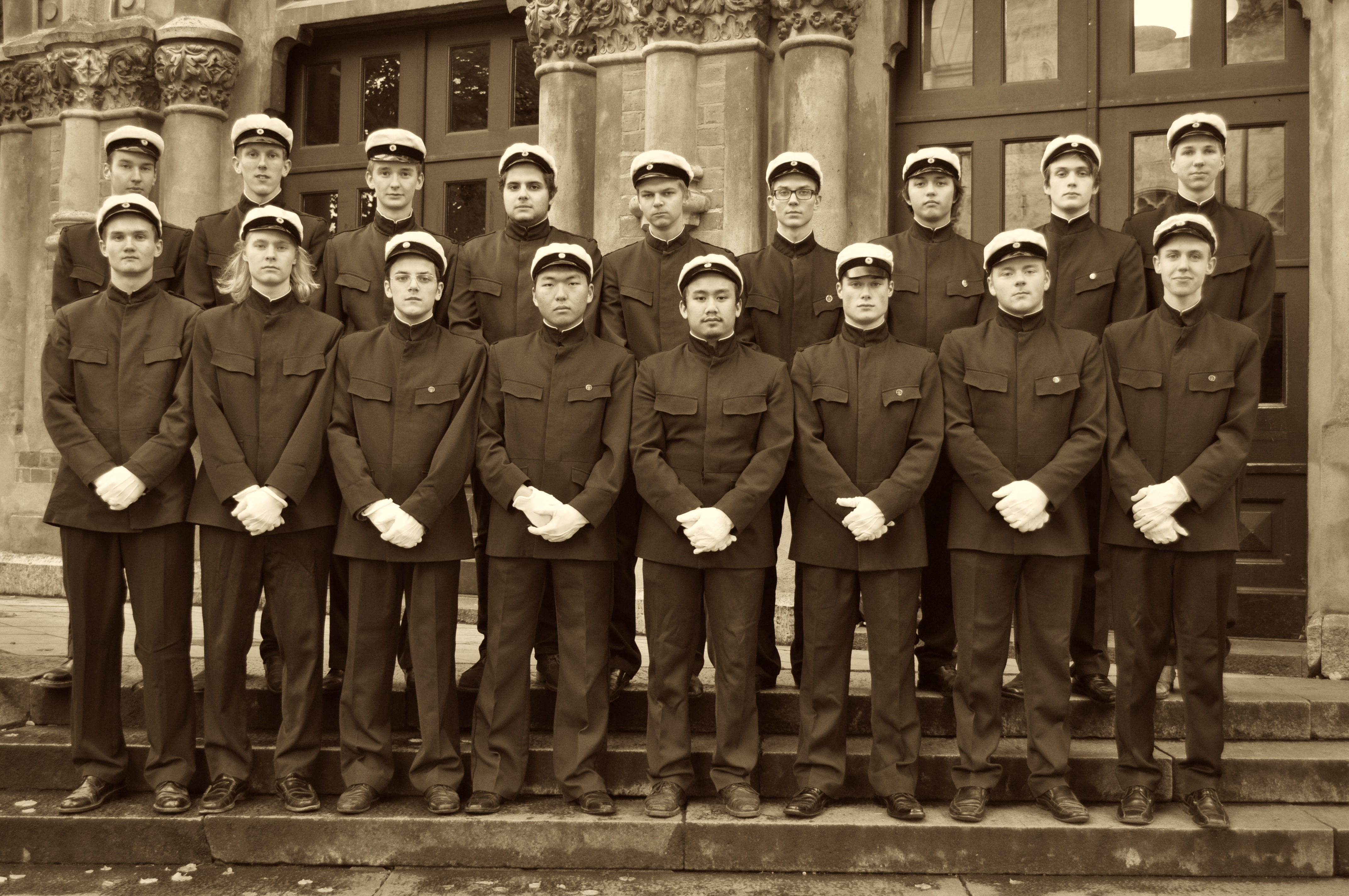 Musikens Vänner - historical men´s choir of Katedralskolan, Skara (Sweden)